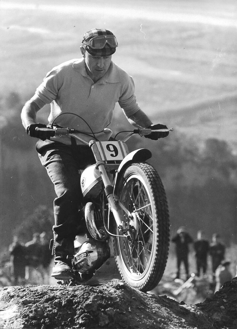 Oriol Puig Bultó on the Bultaco Sherpa T mod. 27, AKA San Antonio, during the 1967 El Papiol Trial.